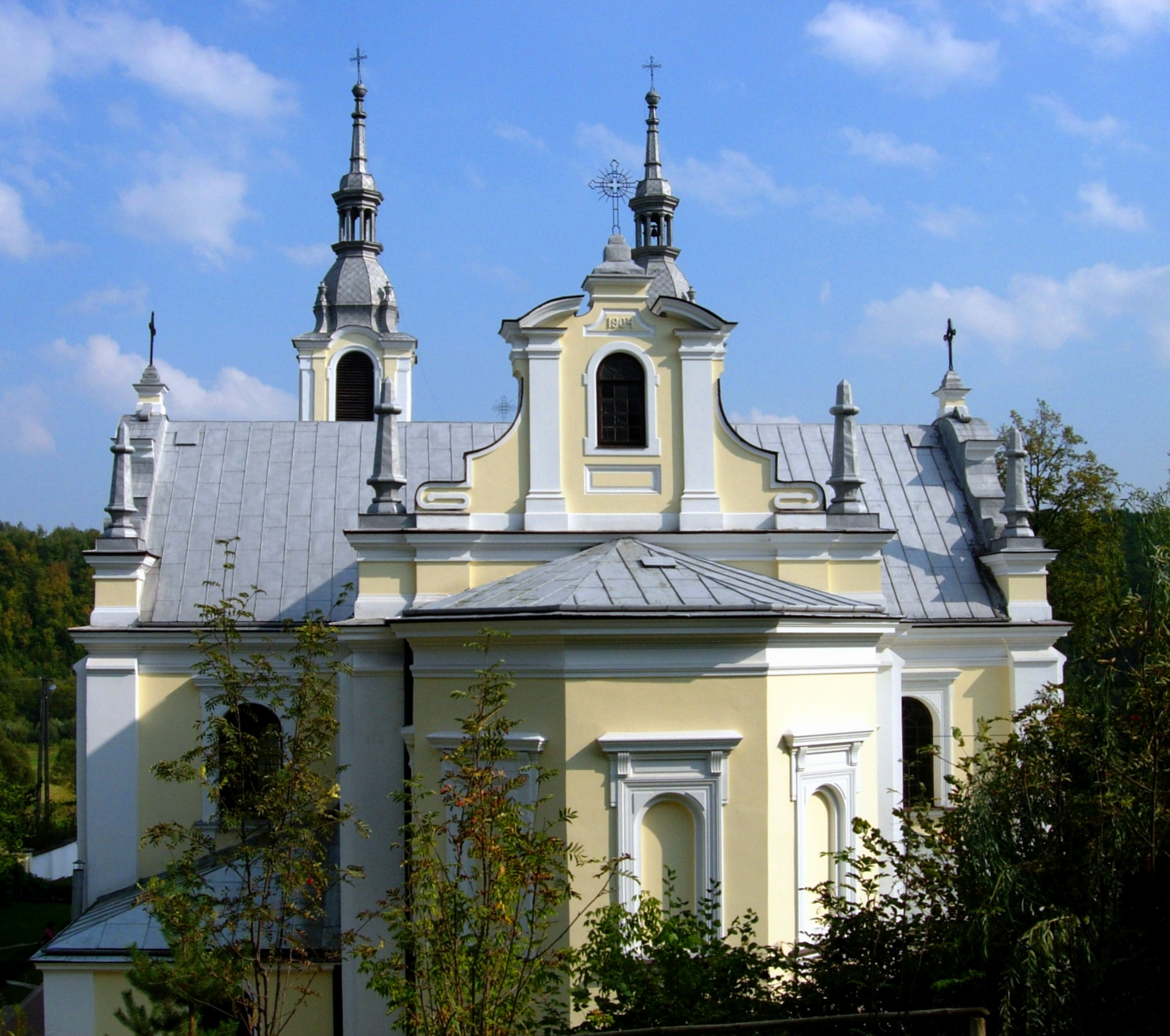 The church in Bałtow, Poland